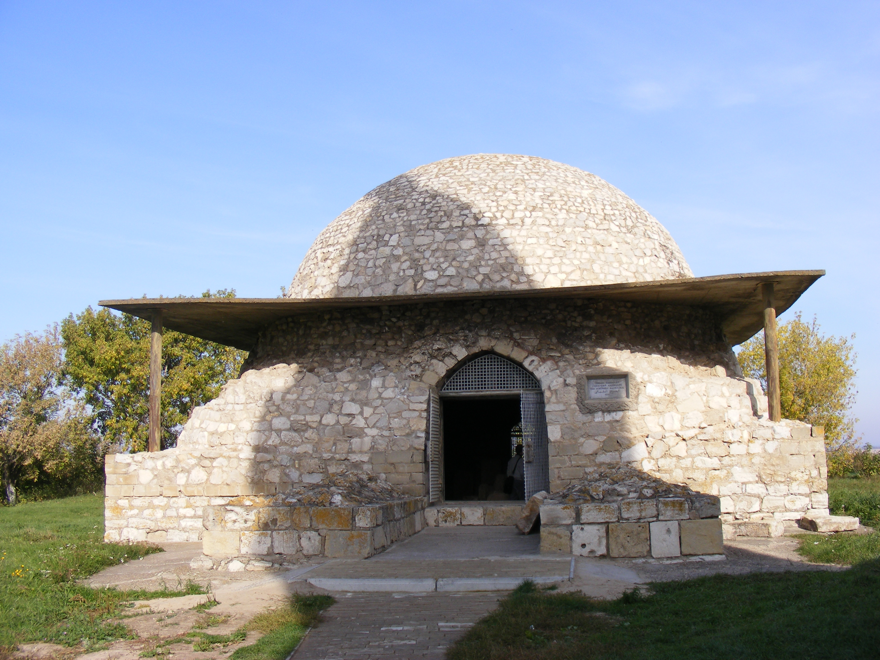 Northern mausoleum in Bolgar, Tatarstan, Russia